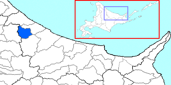 The location of Nishiokoppe in Abashiri Subprefecture, Hokkaido Prefecture, Japan.